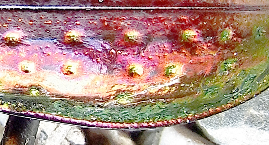 Carabus rutilans from Spain, Catalonia, west of Manresa in moist valley, detail of elytra (front at left side)